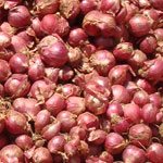 Picture of small onion